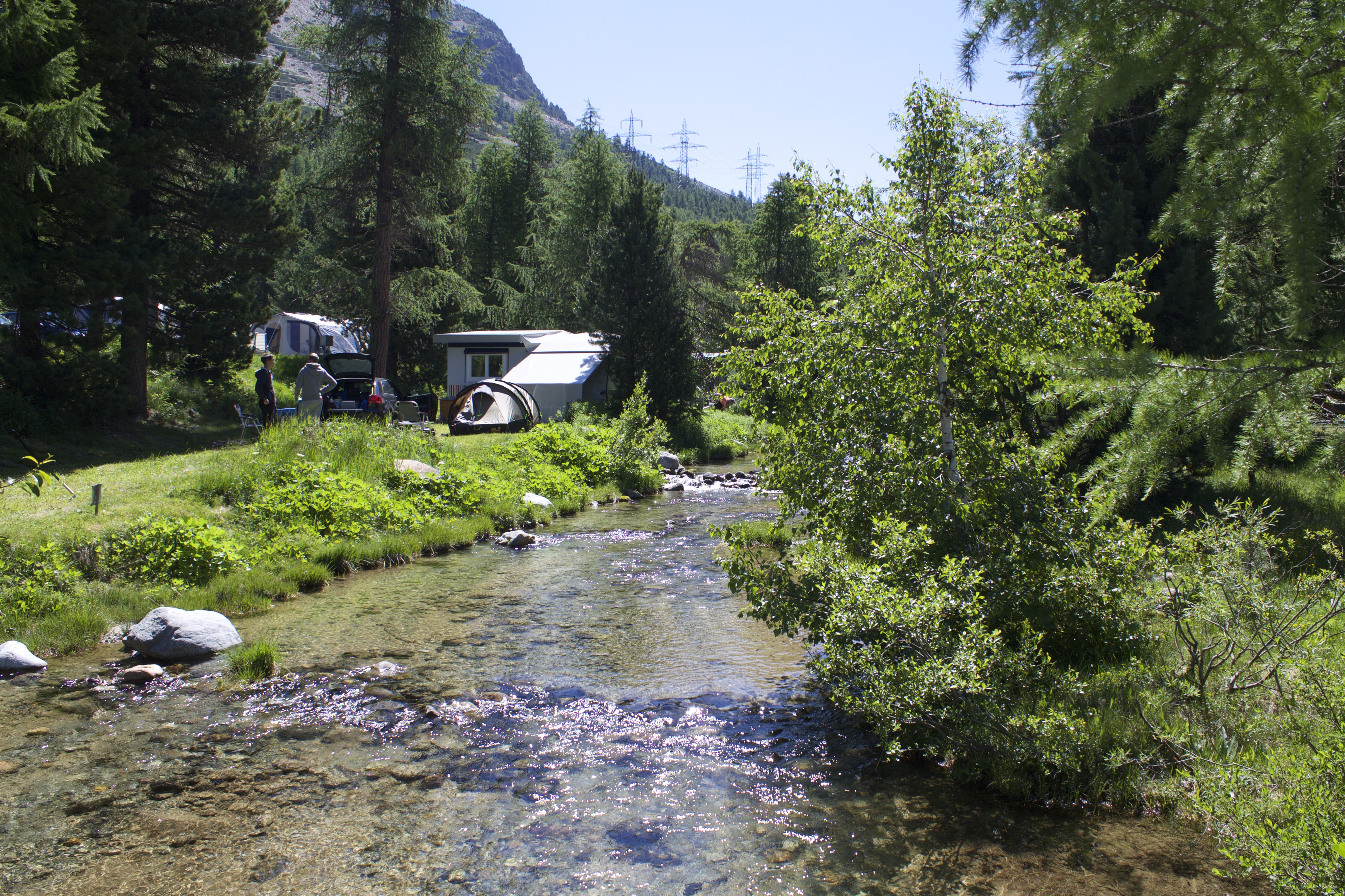 Camping Morteratsch